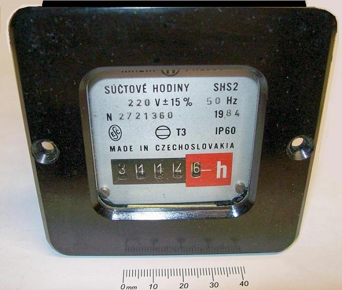 hour counter / time counter for 220VAC / 50 Hz